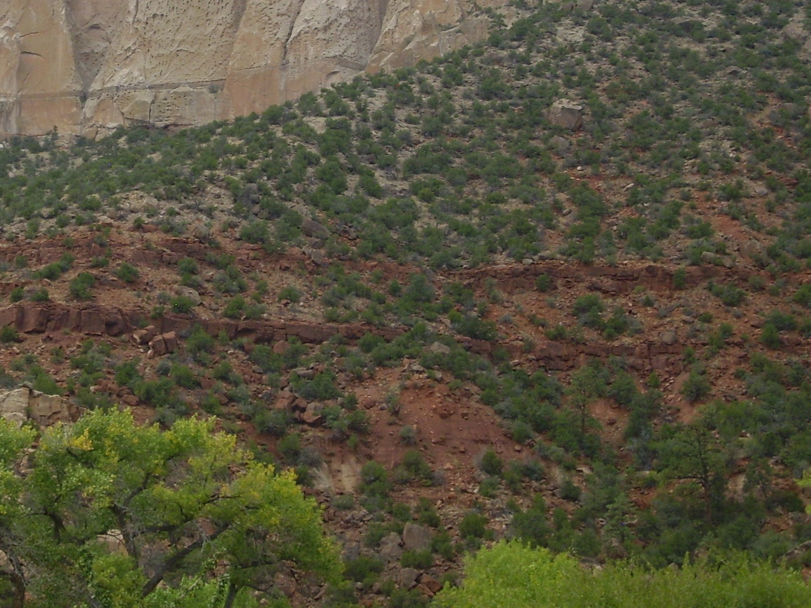 This image shows red beds of the Permian Abo Formation on a hillside in Canon de San Diego, New Mexico, United States. This is overlain in the background by Bandelier Tuff.